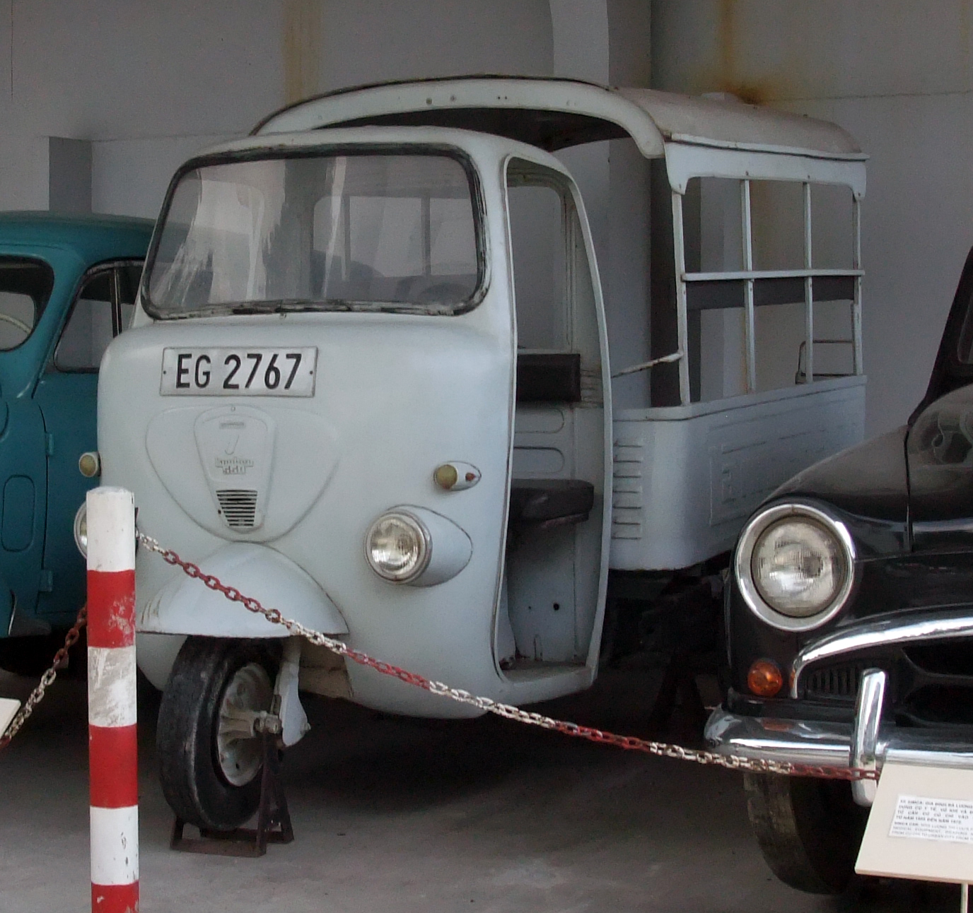 Lambretta Lambro 550 at the War Remnants Museum in Ho Chi Minh City